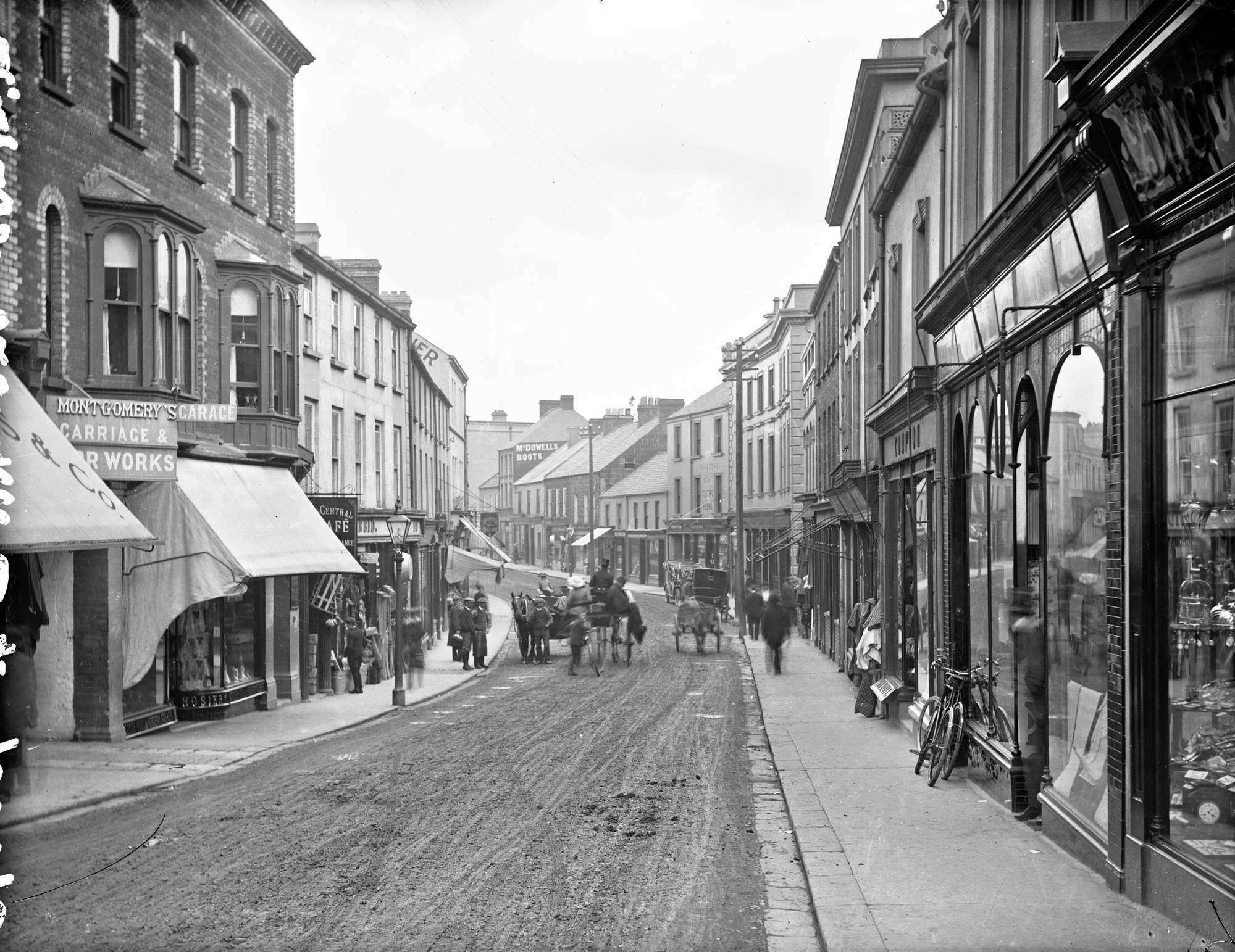 Today we go north to the fine town of Ballymena in Co. Antrim with an image from the Lawrence Collection. There's a fine mixture of transport on display with bicycles, horse transport and motors in the distance! Summer time I am guessing given the awnings out over the shop windows. Thanks in particular today to [/photos/vab2009/ Vab2009] and [/photos/gnmcauley/ Niall McAuley] for the investigations into the likely date range and the businesses on Church Street in that period. Included are some of the businesses we can see: John McDowell's Boots and Shoes, John W Johnston's Watchmaker and Jewellers, Matthew Montgomery's Carriage and Motor Works, Henry Compton's Tailor and Drapers, and JH Denham's Hardware and Ironmongery. (The latter whose wares we see prominently displayed, and run per the 1911 census by Margaret Denham, "hardware and ironmongery") Photographer: Robert French Collection: Lawrence Photograph Collection Date: ca. 1865-1914 (possibly ca. 1907-1910) NLI Ref: L_ROY_11241 You can also view this image, and many thousands of others, on the NLI’s catalogue at